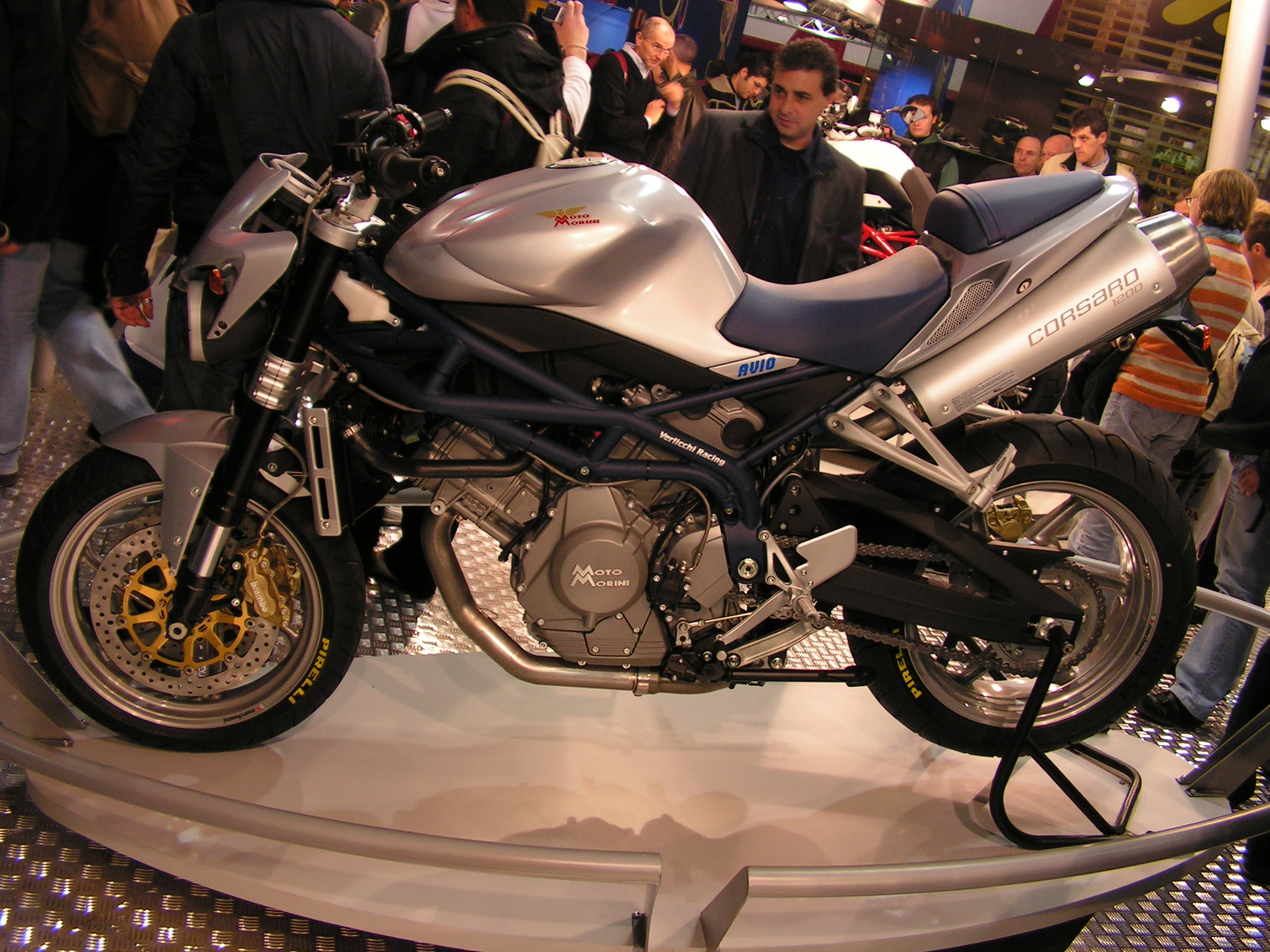 Moto Morini Corsaro 1200 - EICMA 2007, Milan (Italy)